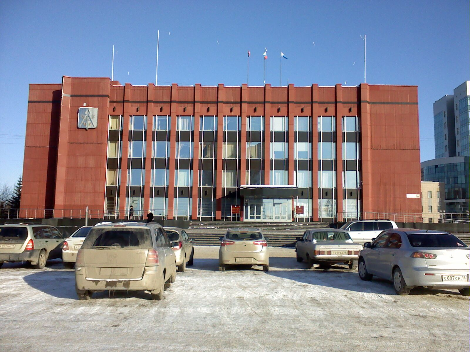 Bildind of Izhevsk Administration and city Council